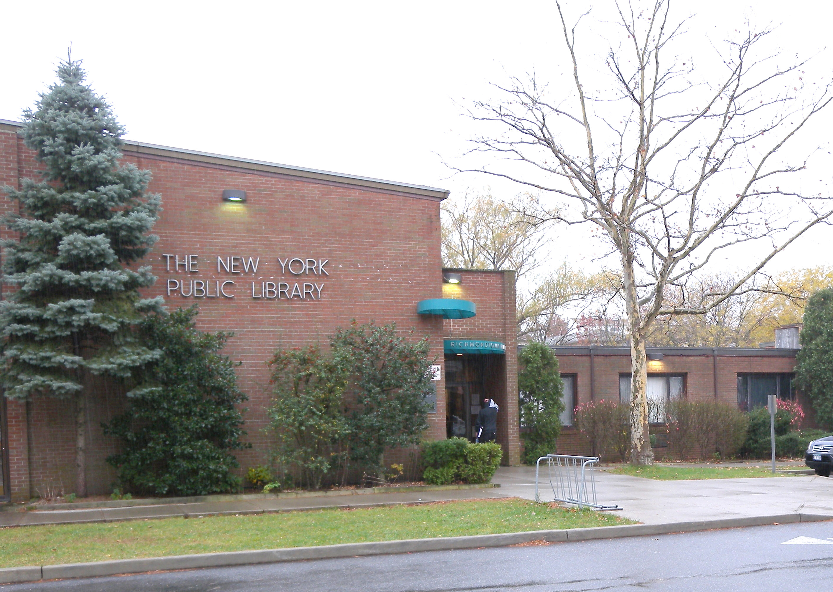 Richmondtown branch of NYPL on a rainy midday